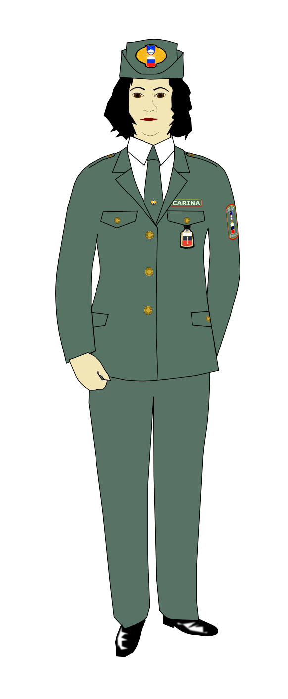 Slovenian Customs Officer in 2000- Woman uniform. Based on legal prescriptions in official journals: Uradni list RS št 111 (01.12.2000): »Uredba o barvi in oznakah službene obleke v carinski službi.« Str. 11440-11443. Uradni list RS št. 107 (23.11.2000). »Pravilnik o službeni obleki delavcev carinske službe.« Str. 11217-11220.